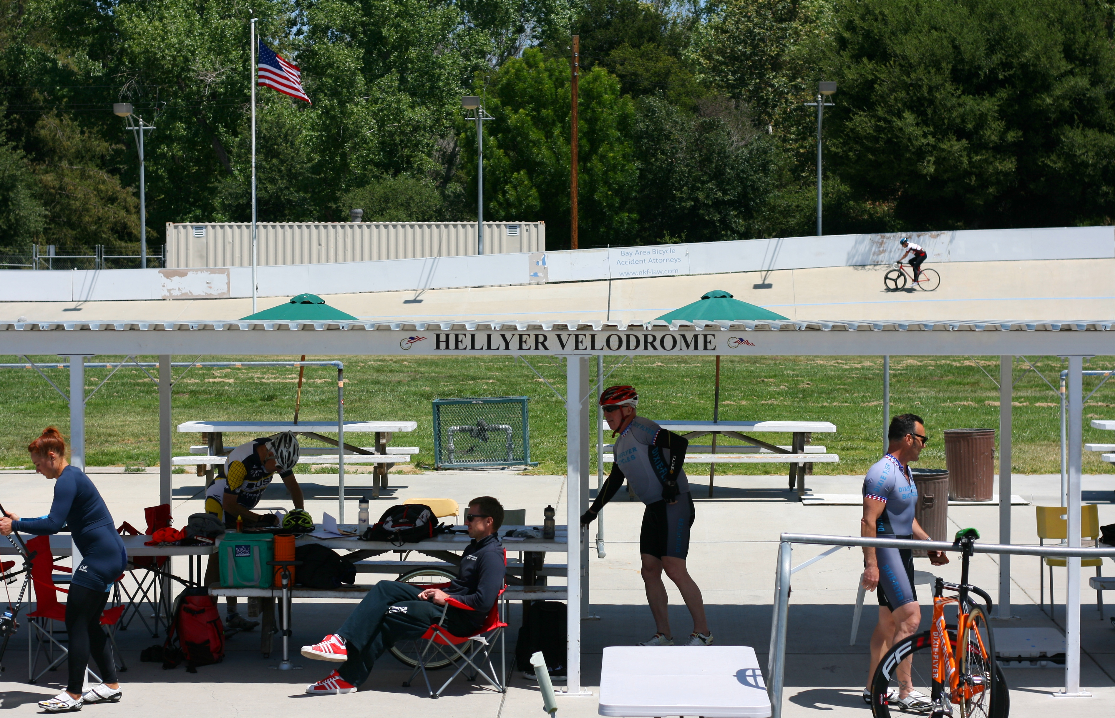 I rode past Hellyer Velodrome today so I shot photos.